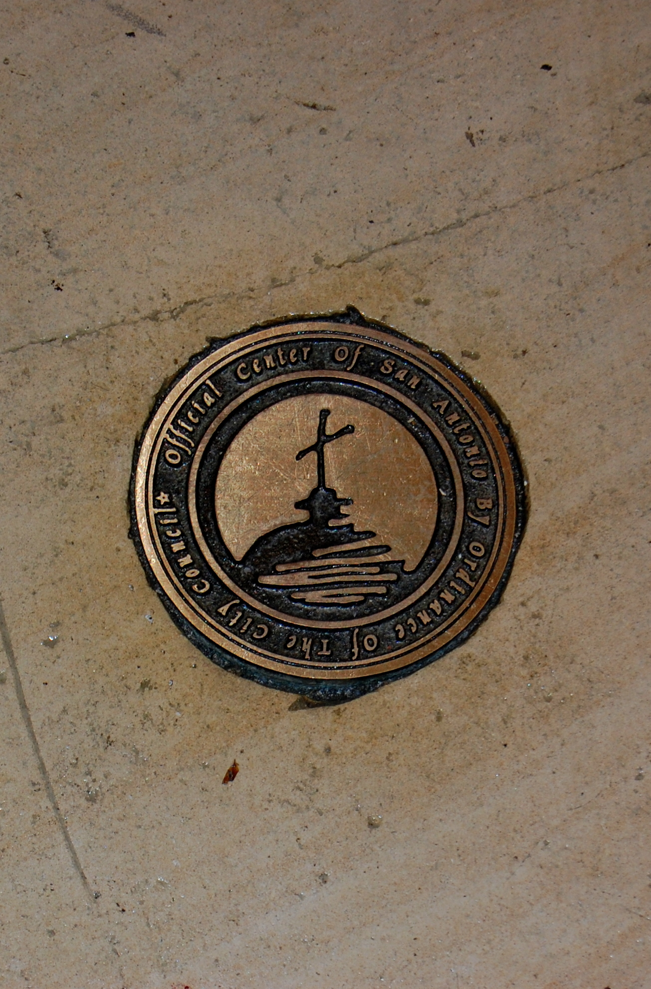 Seal marking the official center of the City of San Antonio in the Cathedral of San Fernando